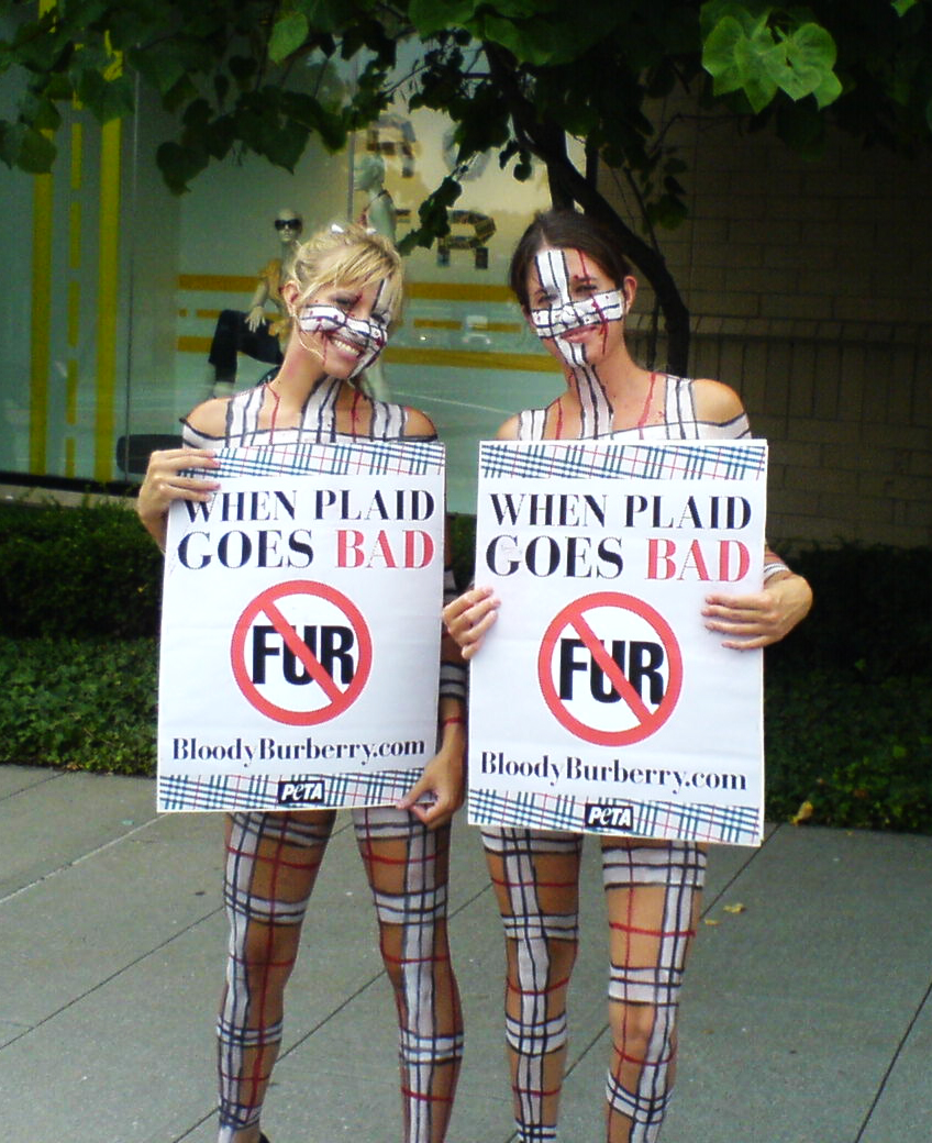 PETA protest in White Plains, New York